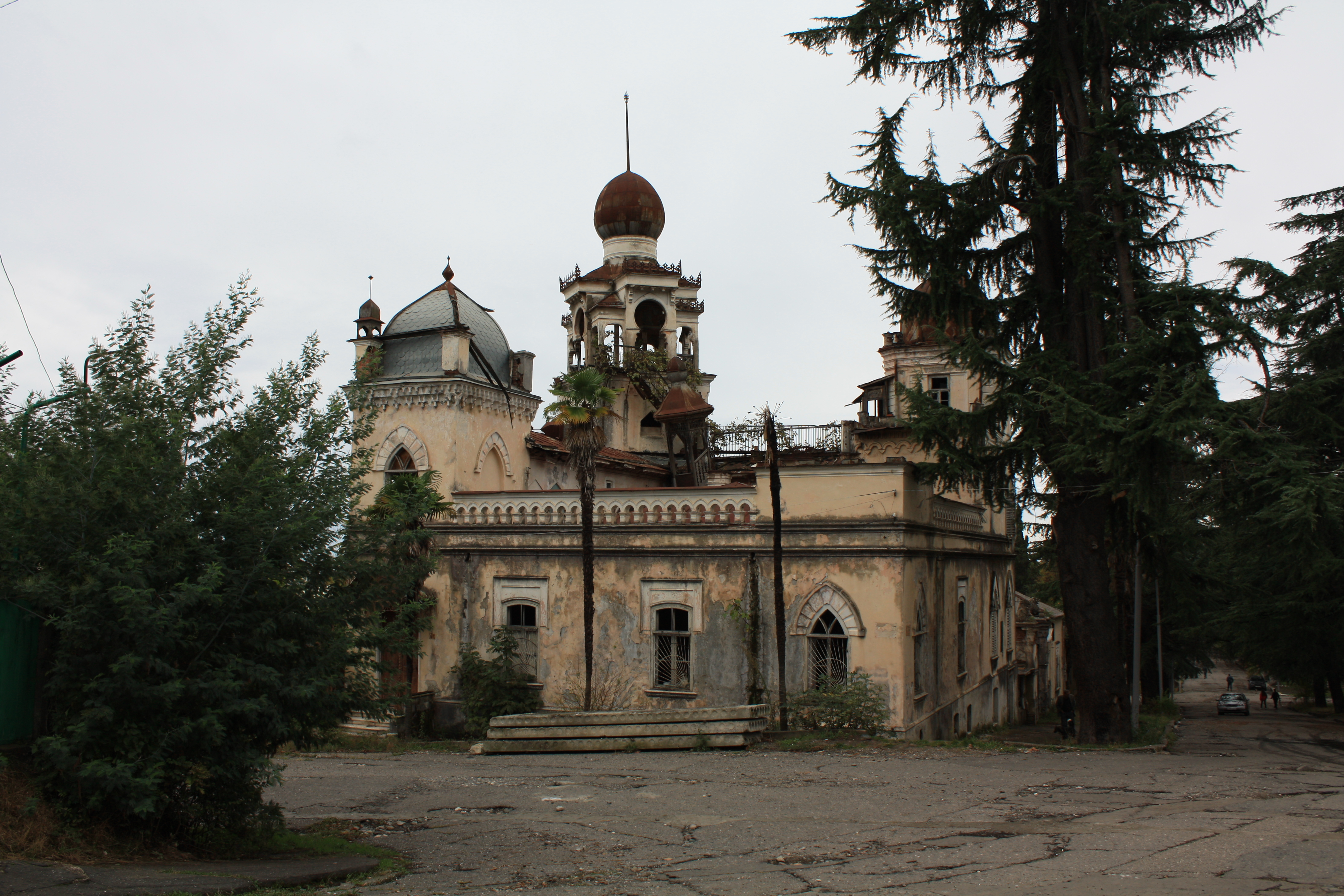 Aloisi villa in Sukhumi, Abkhazia